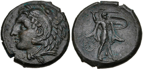 Syracuse. Pyrrhos. 278-276 BC. Æ Litra (24mm, 10.44 g, 4h). Head of Herakles left, wearing lion skin; [cornucopia behind] / Athena Promachos right; wreath to left.